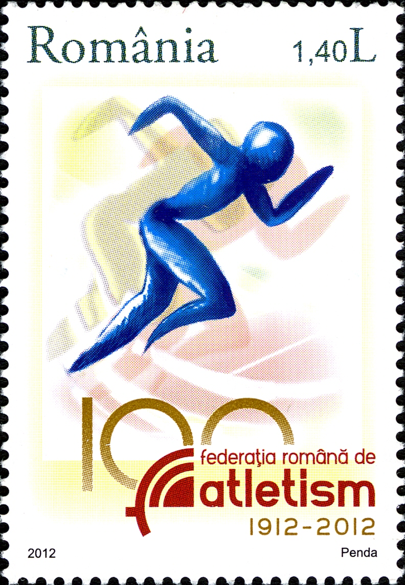 Stamps of Romania, 2012